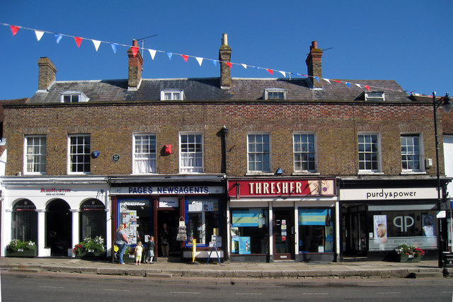 Shops on High Street, Cranbrook, Kent Grade II listed [1]